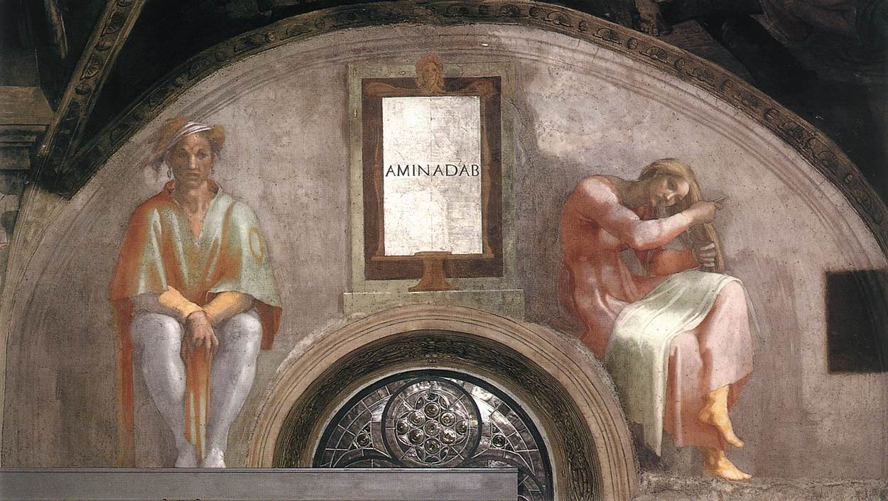 from [1]